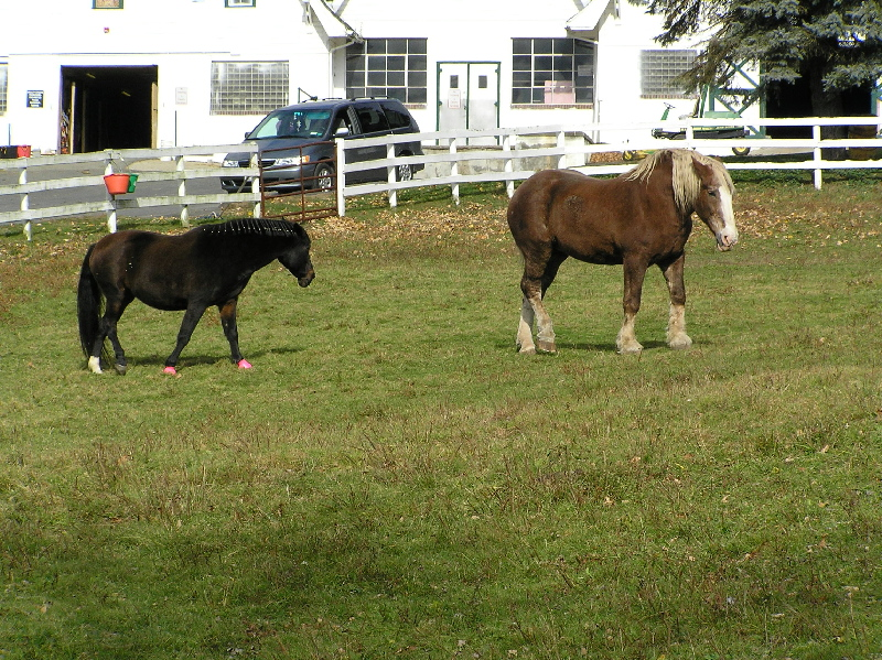 I took this photograph of horses at Tilly Foster Farm in Southeast. —GNU Free Documentation License